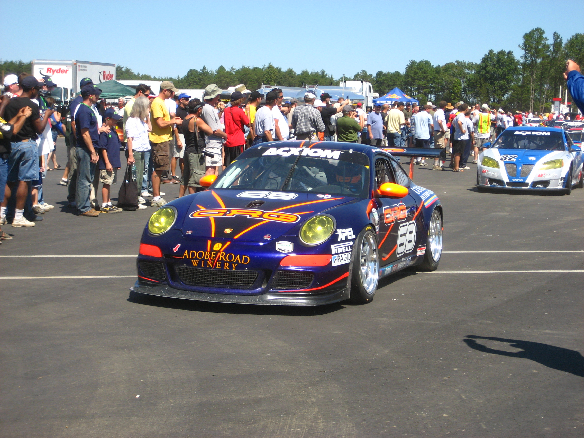 The Racer's Group's Porsche 997 GT3 Cup at the 2008 Supercar Life 250 at the New Jersey Motorsports Park.